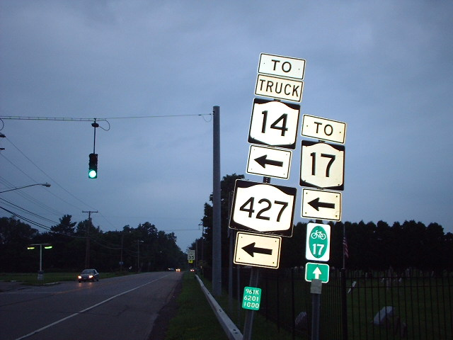 Signage at the former eastern terminus of New York State Route 379 in Southport, New York. From the 1930s to 1978, New York State Route 427 continued straight (into the background) here and NY 379 began to the left. In 1978, NY 427 was rerouted onto NY 379 and NY 427's former routing became New York State Route 961K, a reference marker for which is present here. NY 961K no longer exists.